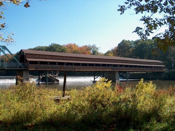 A photograph of Harpersfield Covered Bridge, located in Ashtabula County, Ohio.